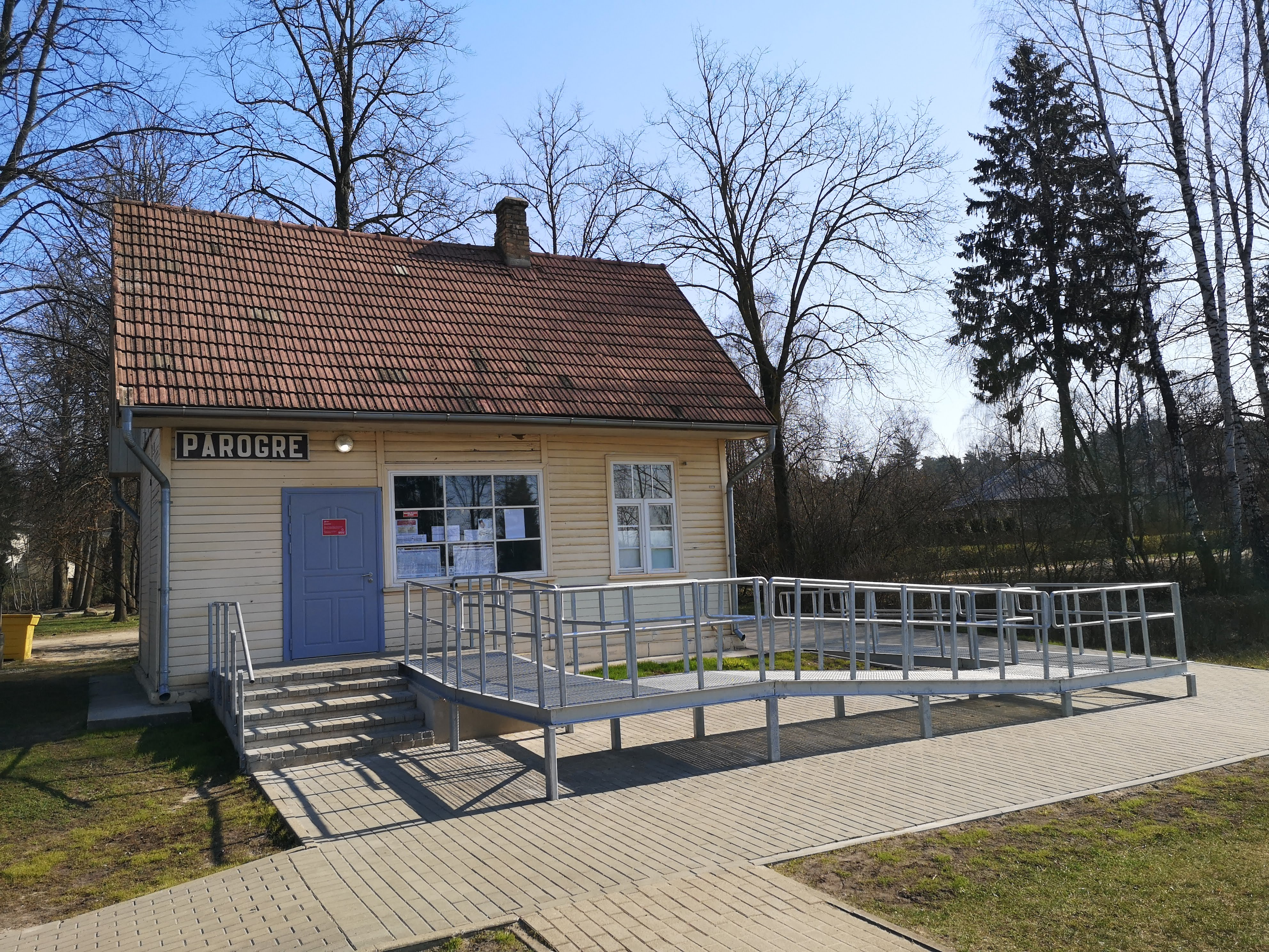 Pārogre train station (2020)